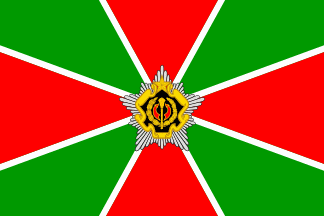 The flag of the General Staff of the Armed Forces of the Republic of Belarus